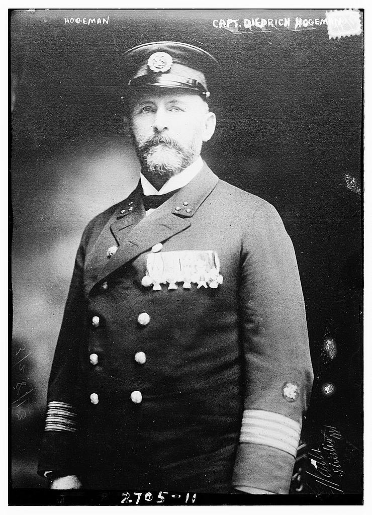 Bain News Service,, publisher. Capt. Dietrich Hogemann [no date recorded on caption card] 1 negative : glass ; 5 x 7 in. or smaller. Notes: Title from unverified data provided by the Bain News Service on the negatives or caption cards. Forms part of: George Grantham Bain Collection (Library of Congress). Format: Glass negatives. Repository: Library of Congress, Prints and Photographs Division, Washington, D.C. 20540 USA, General information about the Bain Collection is available at Persistent URL: Call Number: LC-B2- 2705-11